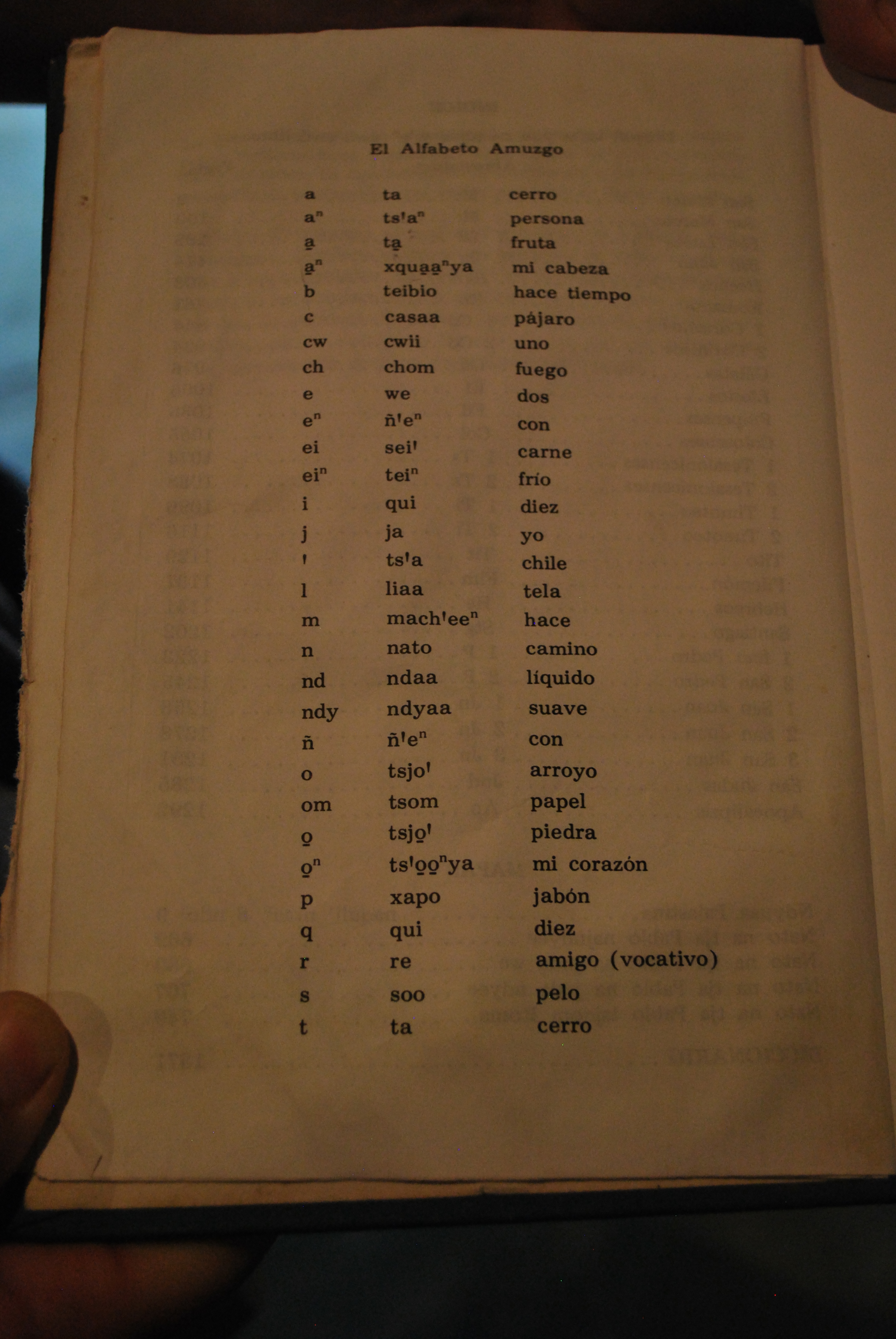 Amuzgo alphabet in a copy of the New Testament in the language at the Xochistlahuca Community Museum